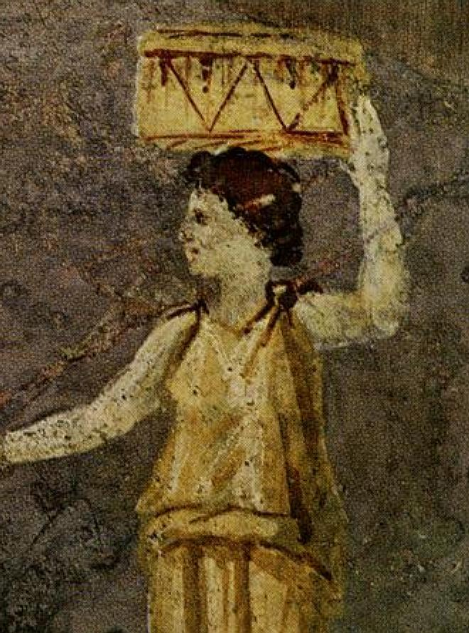 Detail from a wall painting depicting the Cynic philosopher Hipparchia of Maroneia. From the garden of the Villa Farnesina, Museo delle Terme, Rome